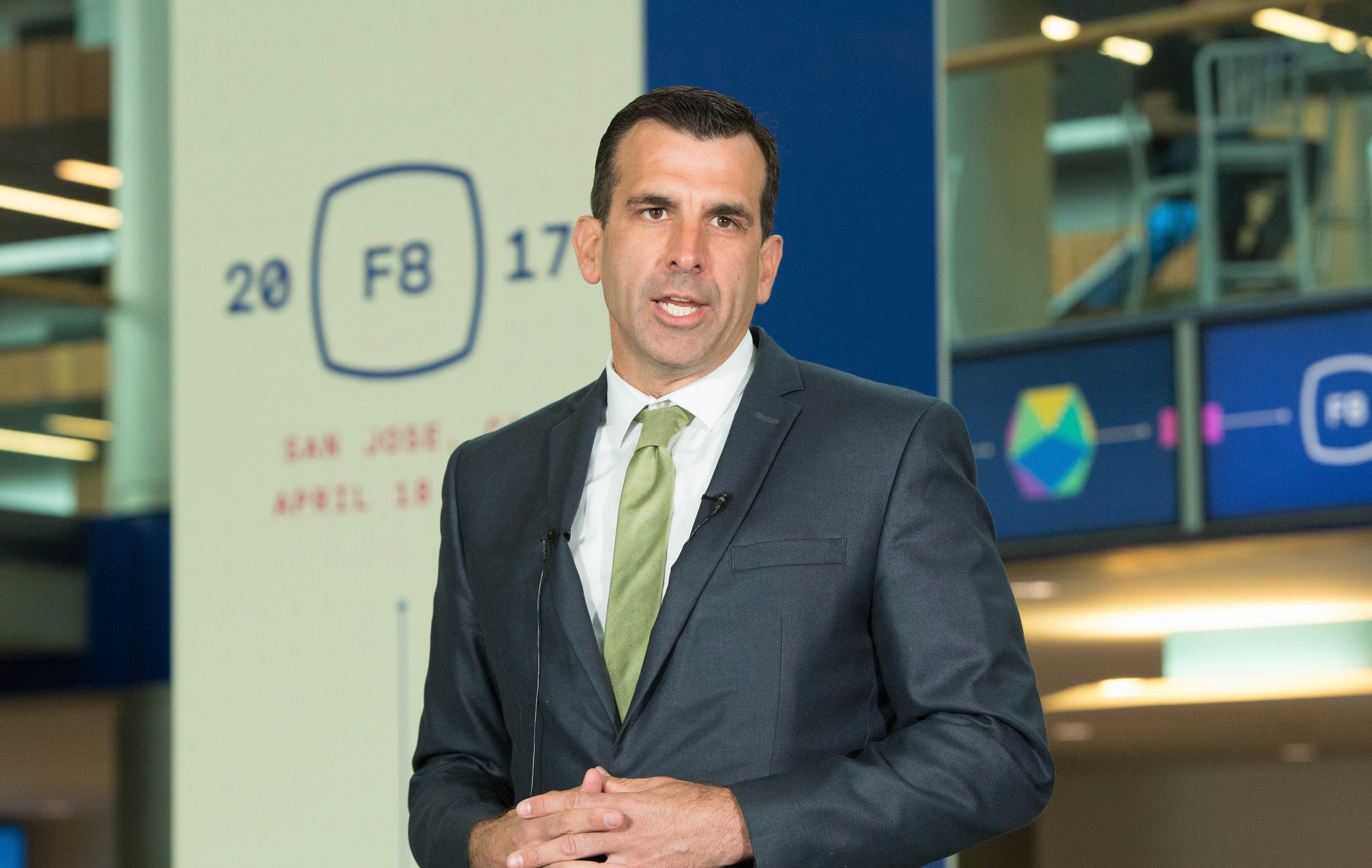 Mayor of San Jose Sam Liccardo speaking at the Facebook F8 2017